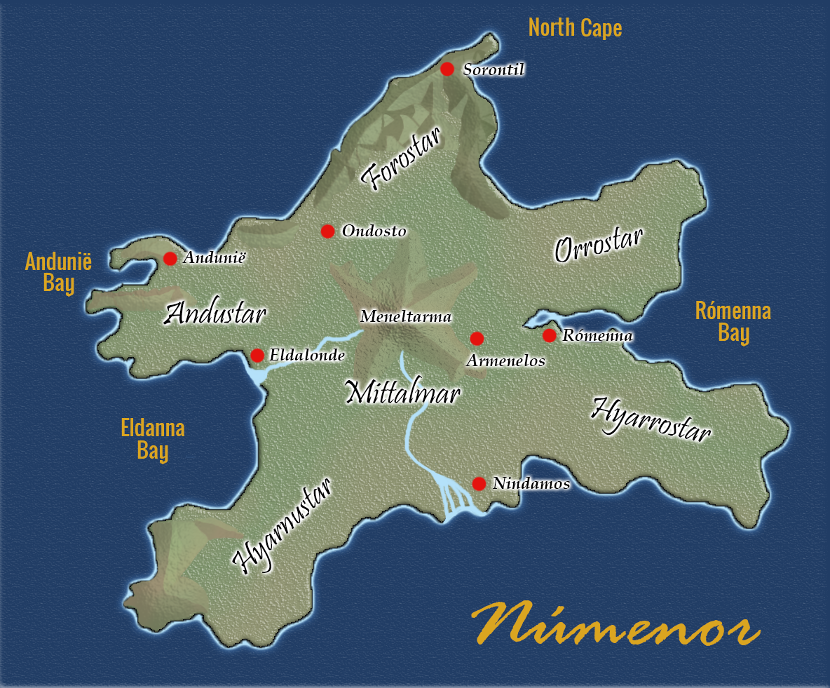 Map of Númenor, the island of Westernesse in the Second Age of Tolkien's Middle-earth